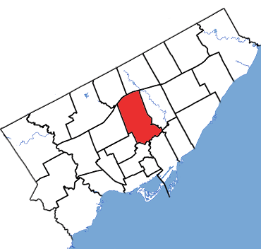 Don Valley West in relation to the other Toronto ridings (2015 boundaries)